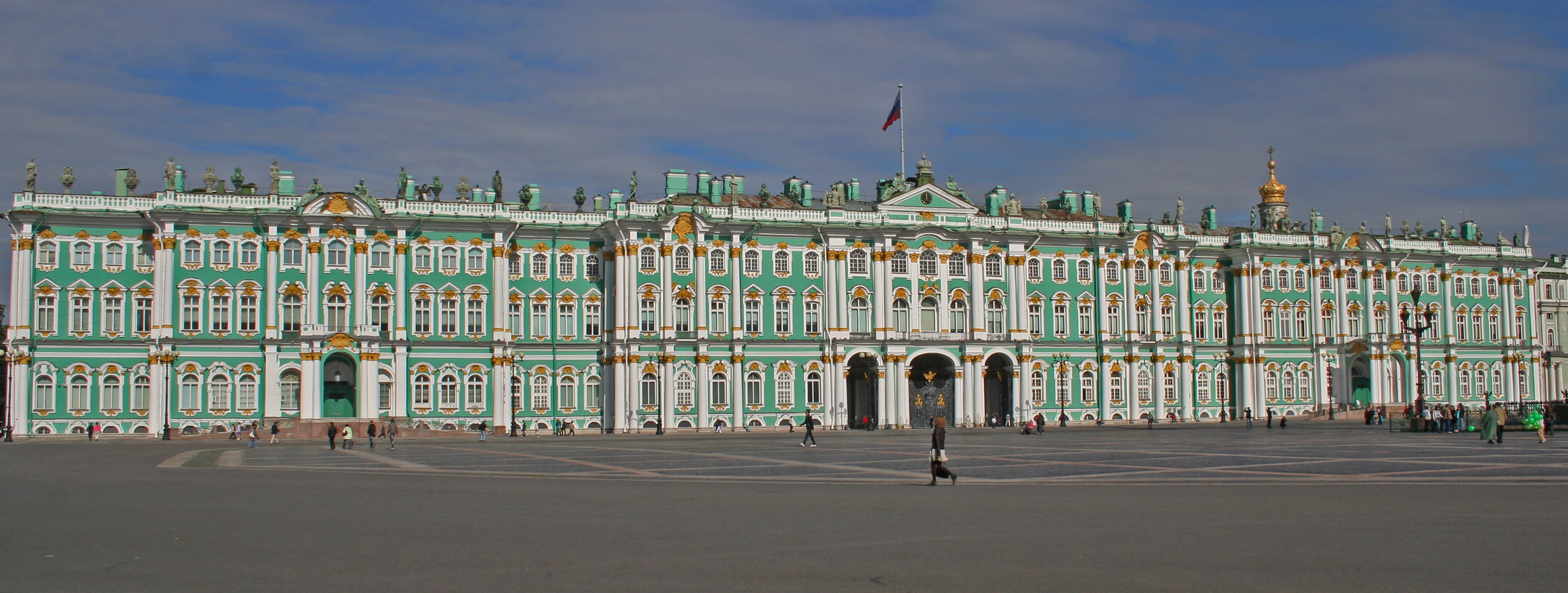 The Winter Palace in Saint Petersburg.